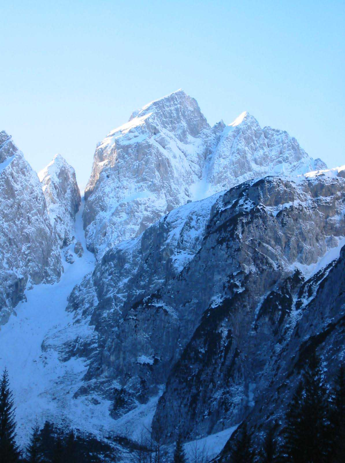 Jalovec, mountain in Slovenia (Julian Alps) photo:Ziga 12:45, 11 April 2007 (UTC)